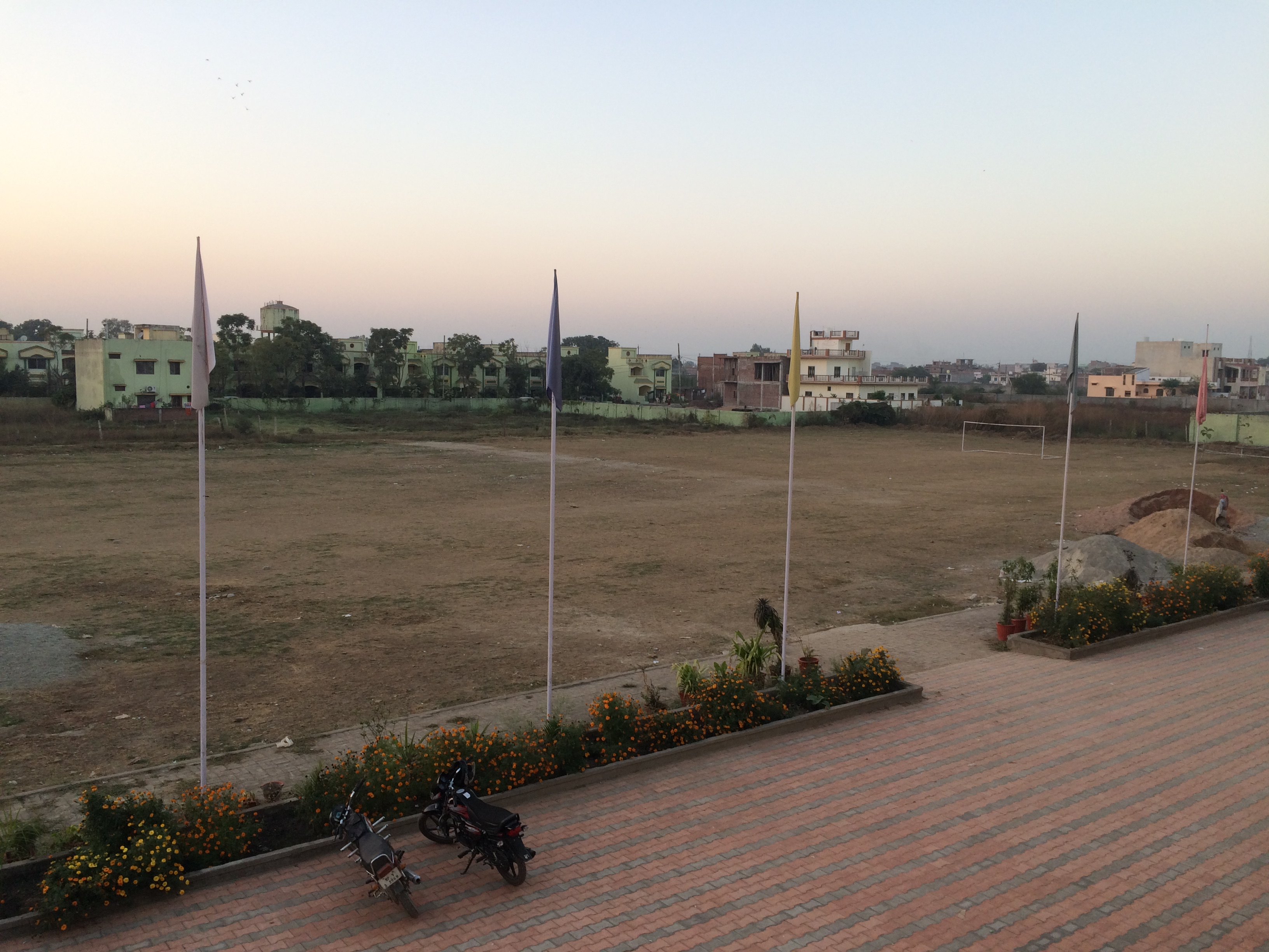 Soccer Field at Chanakya Public School